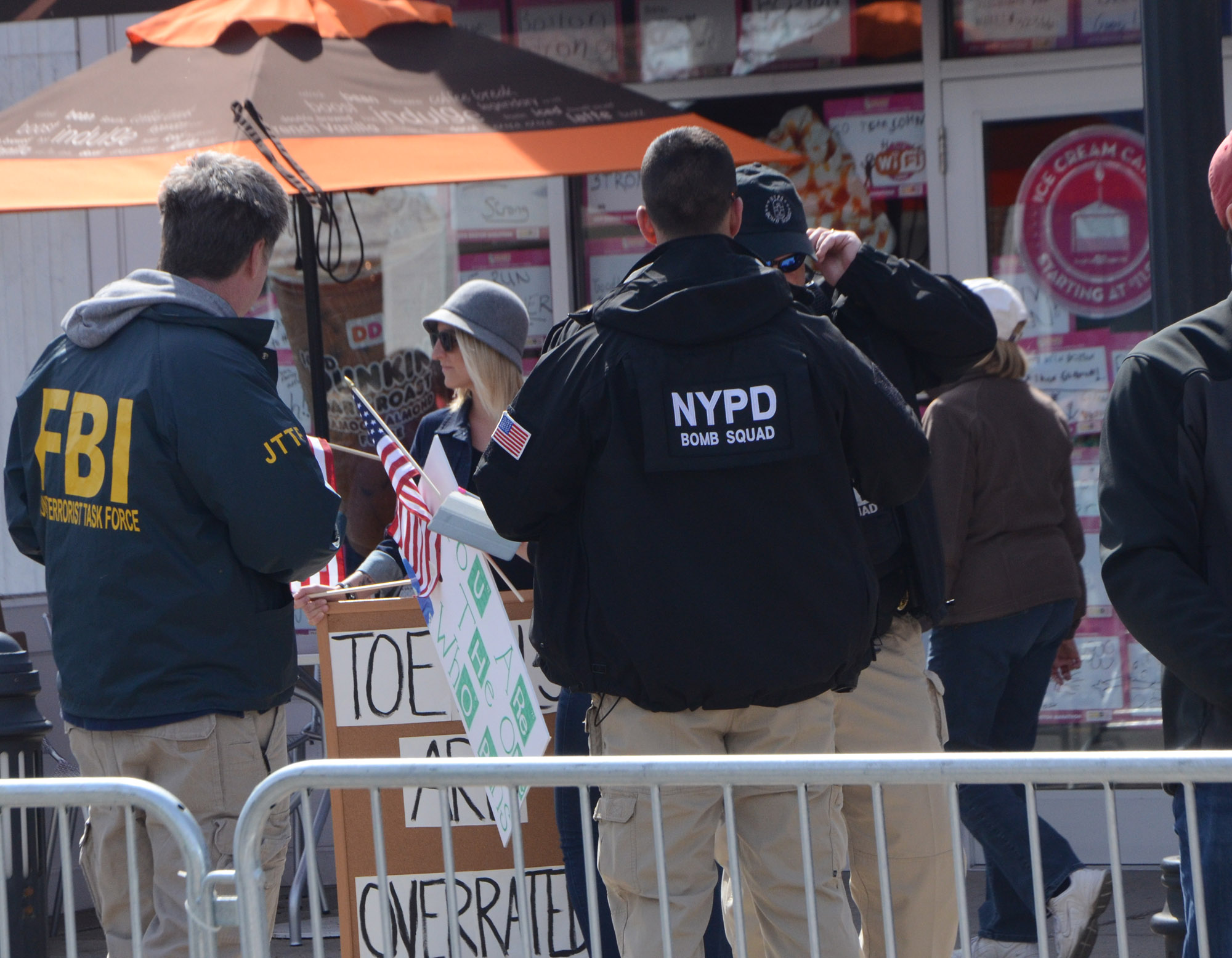 Extra security (personel and fencing) over and above the previous year at the 2014 Boston Marathon.